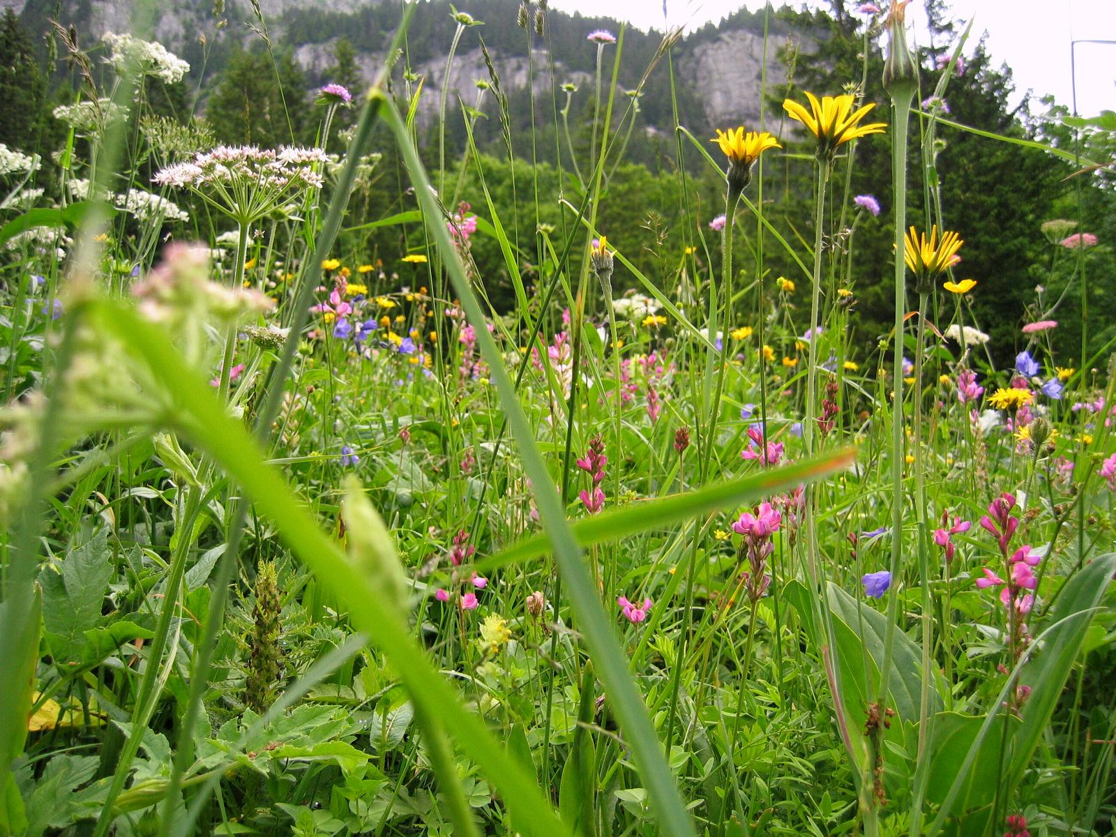 A meadow in the valley of Gasteren. Shot taken from: west of Gastere